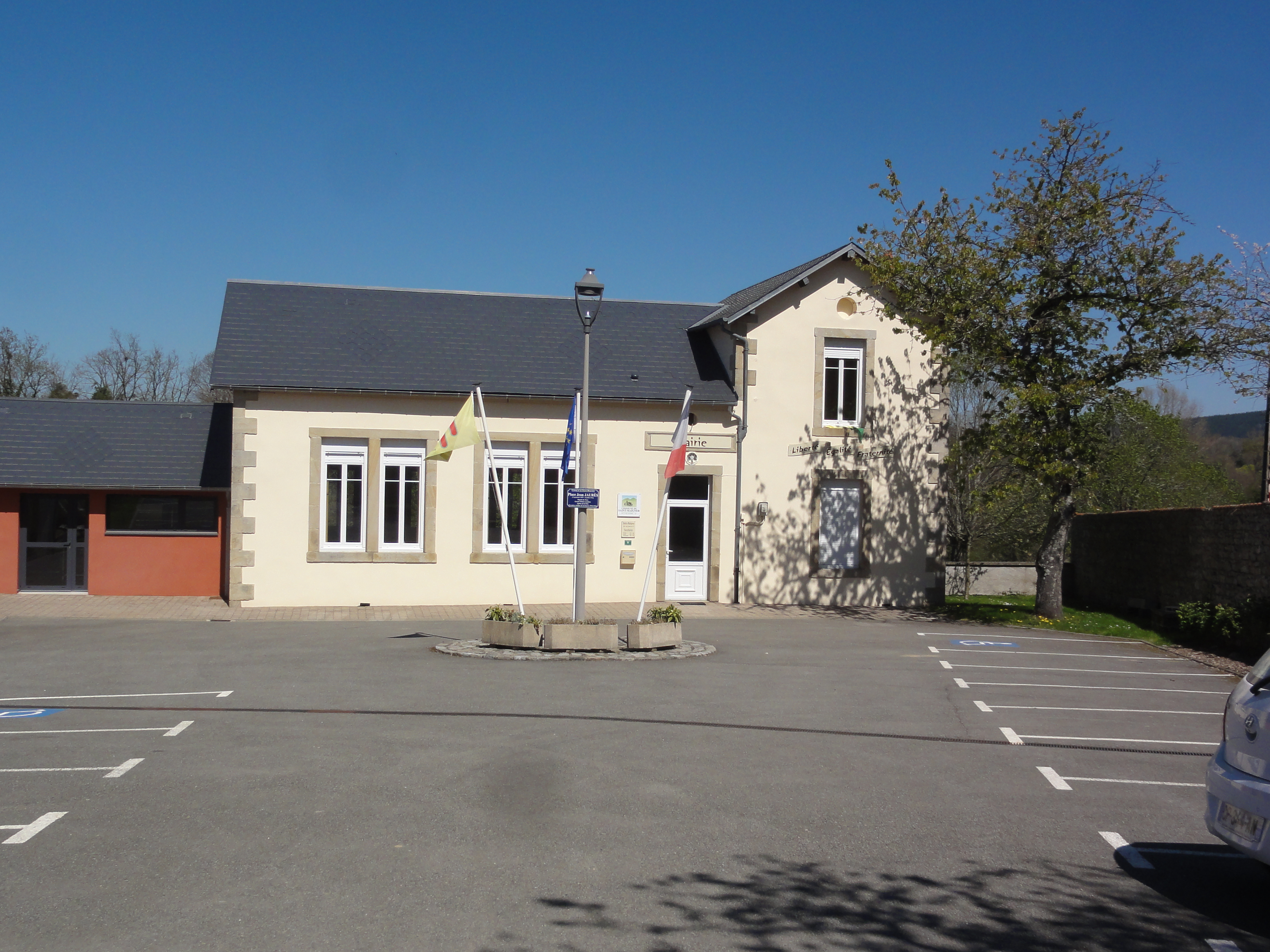 Saint-Maigner (Puy-de-Dôme) mairie